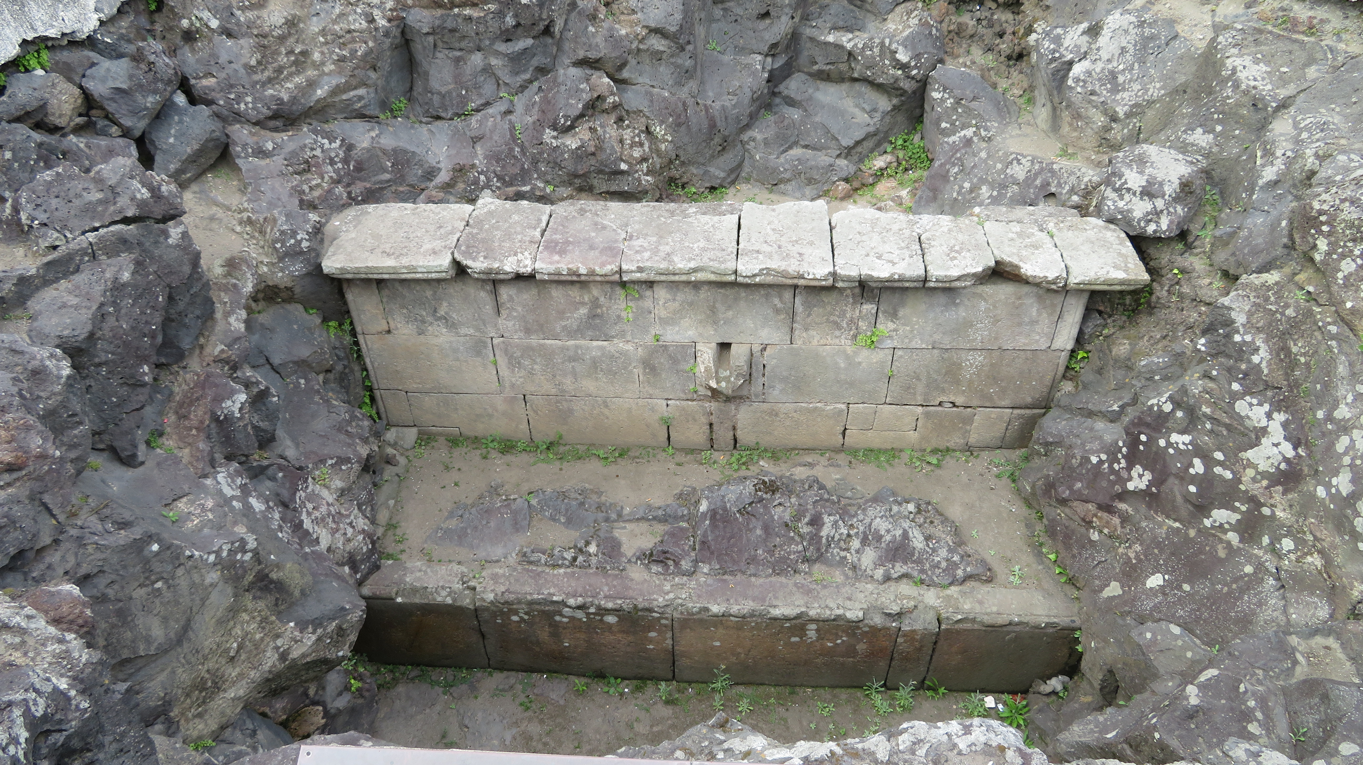 Excavated fountain in Ribeira Seca (Ribeira Grande), Sao Miguel, Azores, Portugal